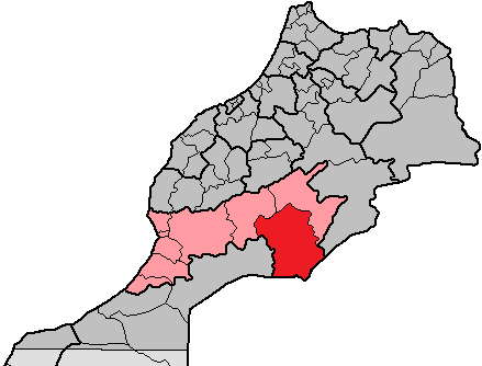 Location of the province Zagora within the region Souss-Massa-Drâa, Morocco. In total, Morocco has 16 regions, subdivided into 62 provinces and 13 prefectures.